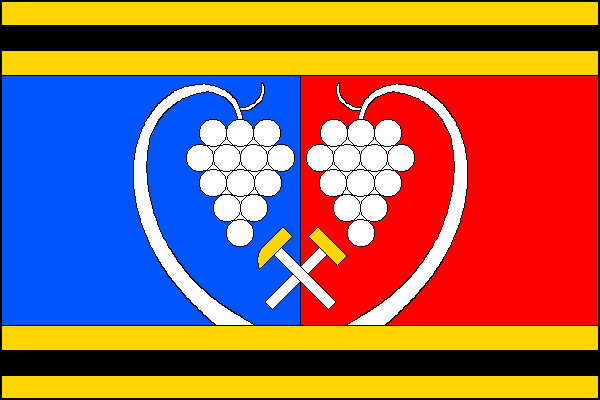 Municipal flag of Vinařice village, Kladno District, Czech Republic.